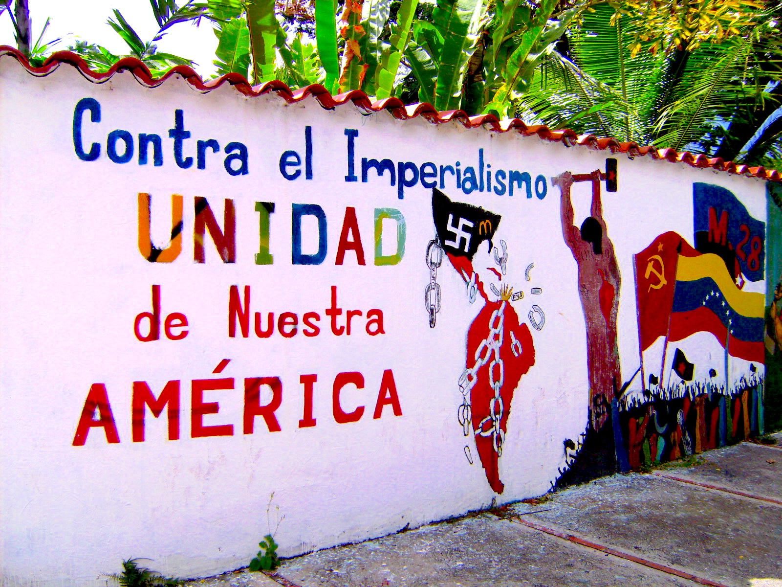 Bolivarian mural against Imperialism and the United States.